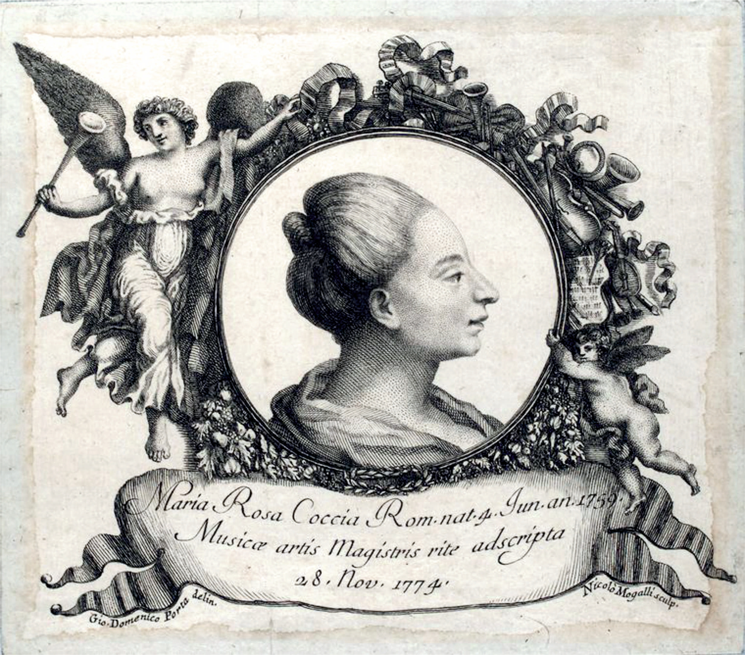 Maria Rosa Coccia, female Composer, copperplate portrait (Giovanni Domenico Porta Painter, Nicolo Mogalli, engrav.), Rom 1759.